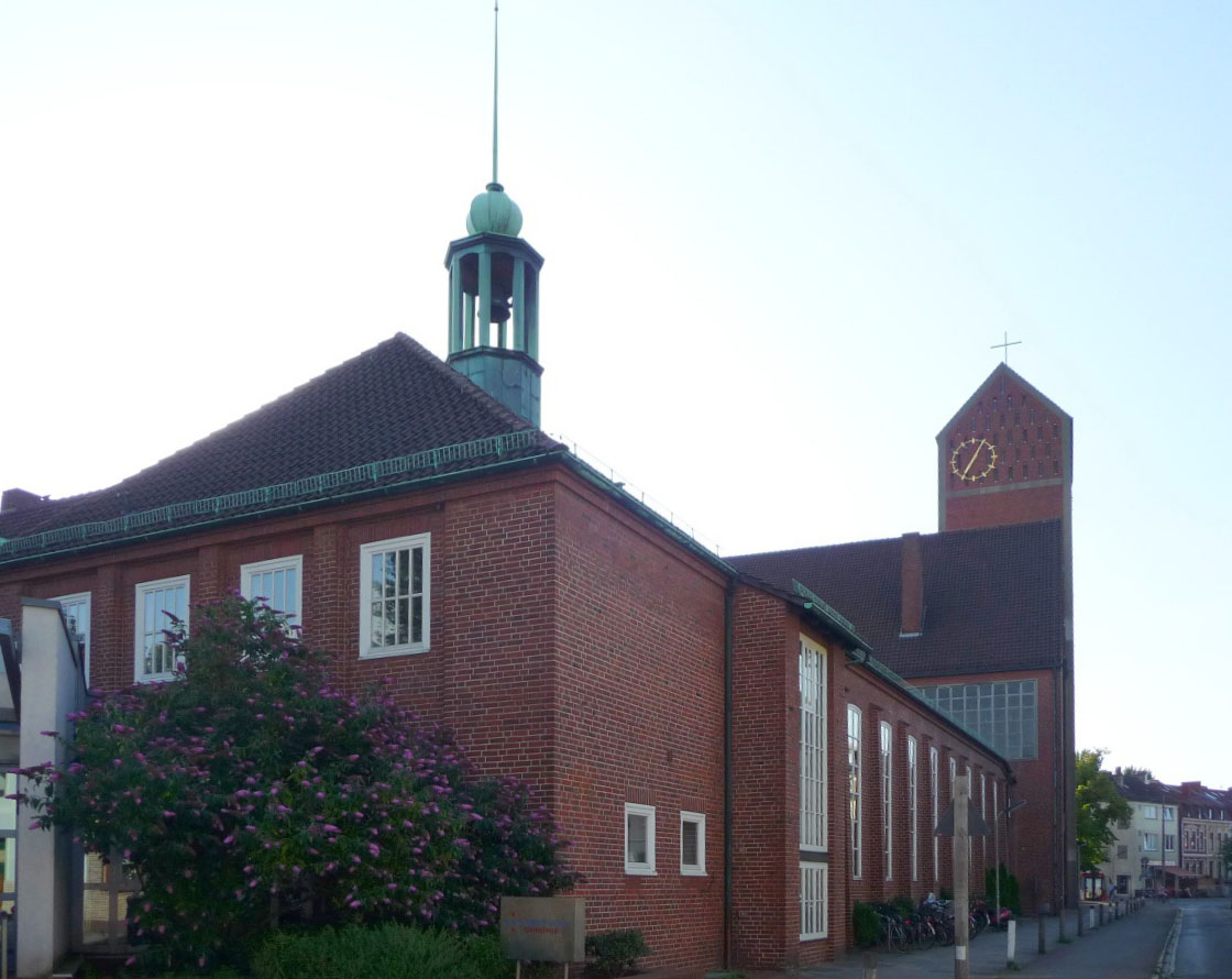 Martin-Luther-Church in Bremen-Findorff